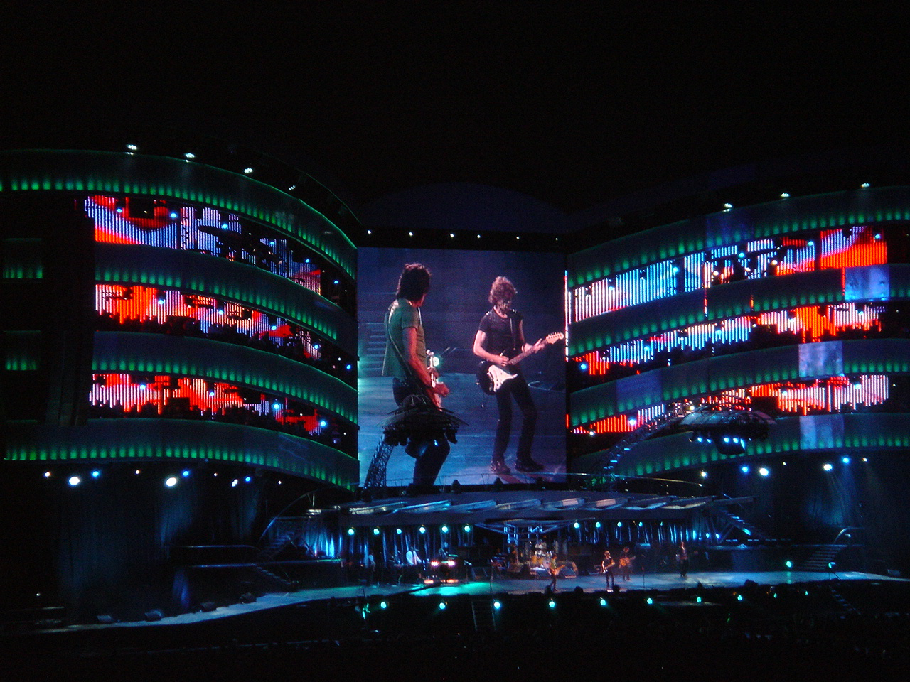 Stones on stage during Bigger Bang Tour, Twickenham, 2006